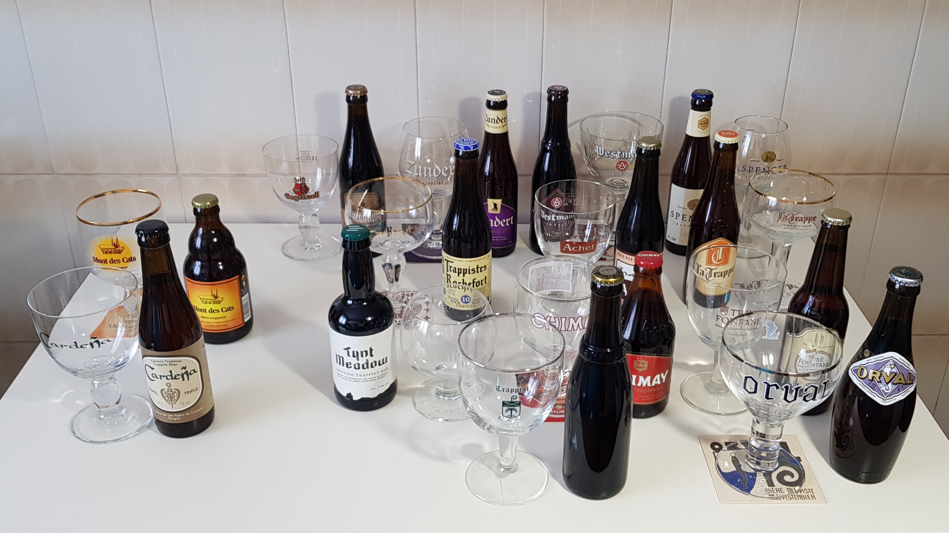 The fourteen trappist beers and their glasses.